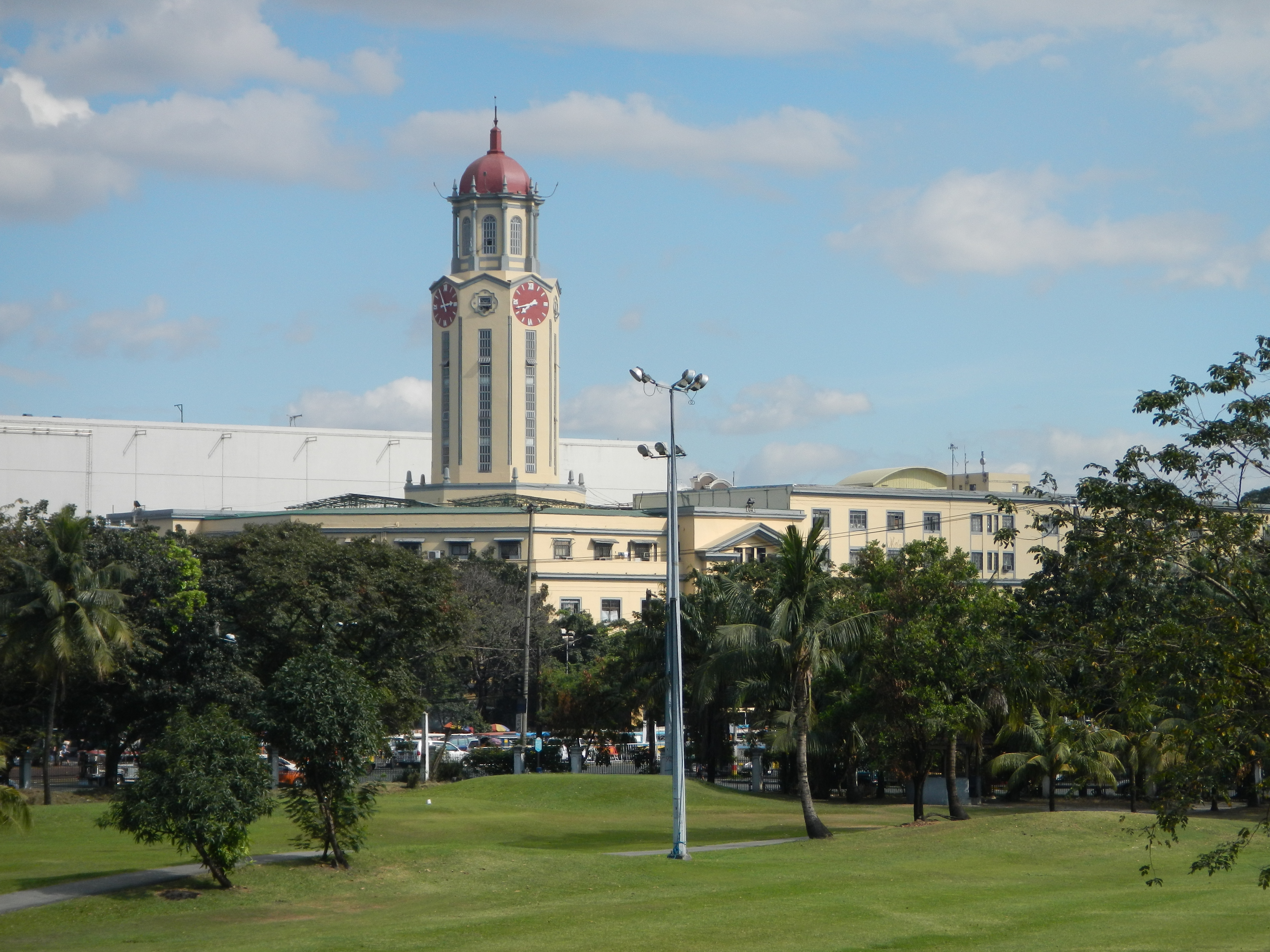 Upload Wizard photos of - the - a) Baluarte de Dilao or San Lorenzo, San Francisco, San Fernando de Dilao, or Dilao built in late 18th century restored since 1983, named after Spanish king Saint Ferdinand III of Castile [1] - Intramuros, Intramuros Golf Club, Intramuros City Walls - Gates of Intramuros [2] Intramuros entrance on Gen. Luna Street, the Bastion of San Diego constructed in 1644, the defensive walls of Intramuros and Muralla Street - Gate facing the south Puerta Real Gardens the original Real Gate (Royal Gate) was built in 1663 at the end of Calle Real de Palacio now General Luna St. and was used exclusively by the Governor-General for state occasions was located west of Baluarte de San Andres and faced the old village of Bagumbayan b) beside it is the Manila Bulletin [3] - both parts of the List of Cultural Properties of the Philippines in Metro Manila [4] and List of historical markers in the Philippines[5] - Intramuros Golf Club, Intramuros City Walls, c) The Bayleaf, part of this is the LPU Culinary Institute.